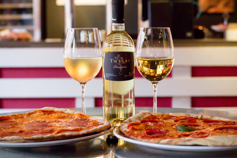 pIZZE